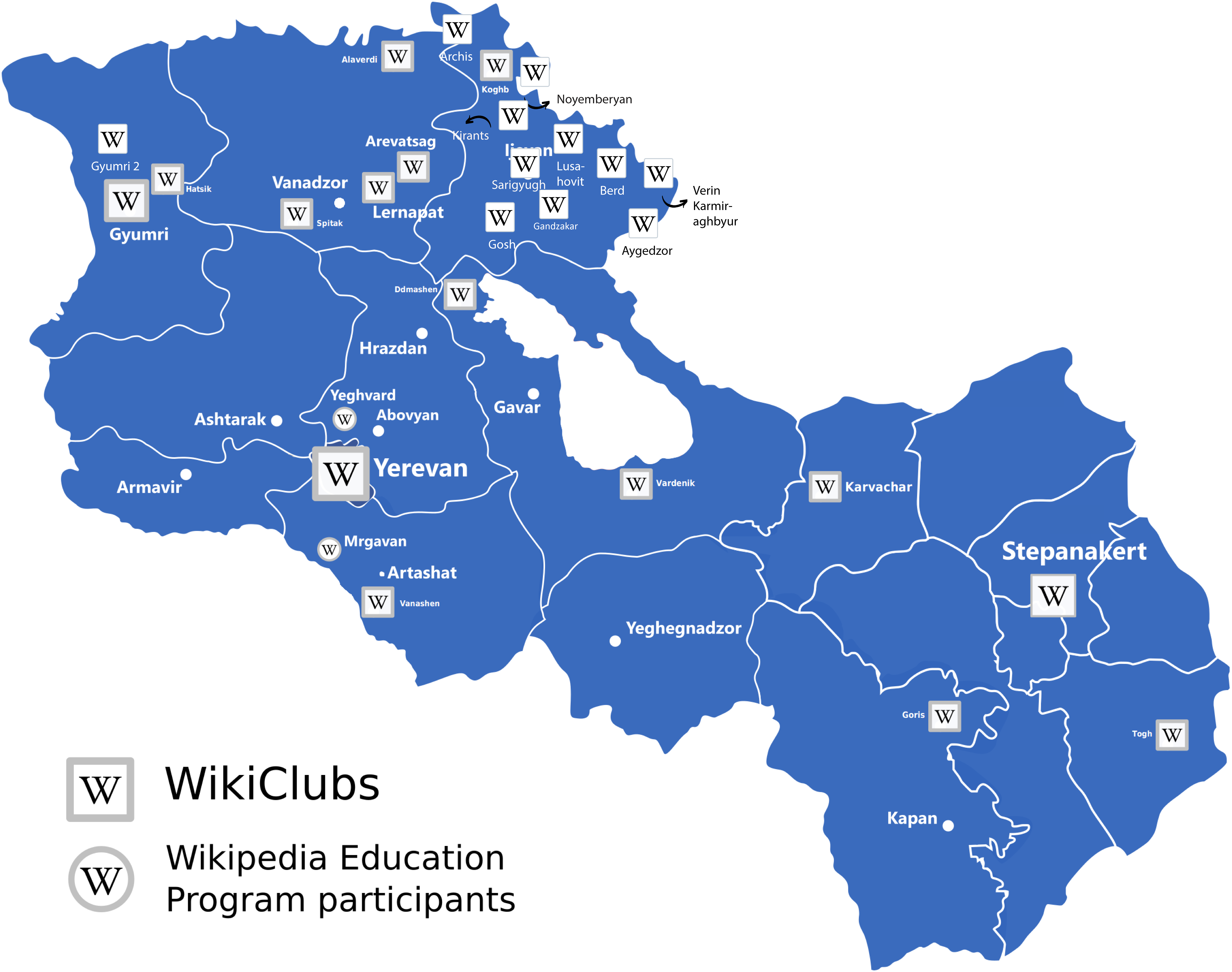 Wikimedia Armenia Education Program map (November 2019)